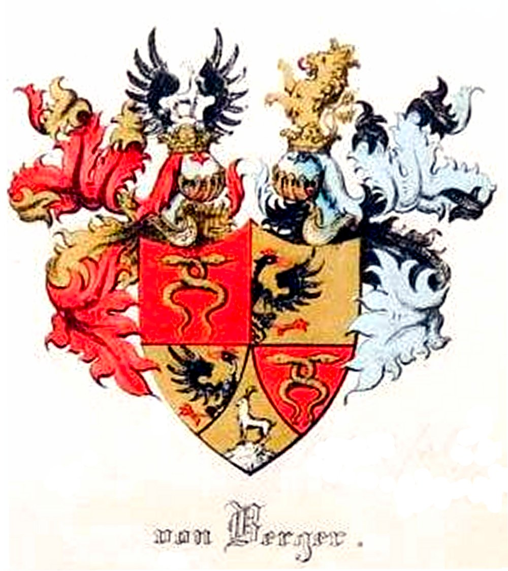 Coat of arms von Berger